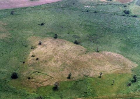 Kamond, Hungary, aerialphotography